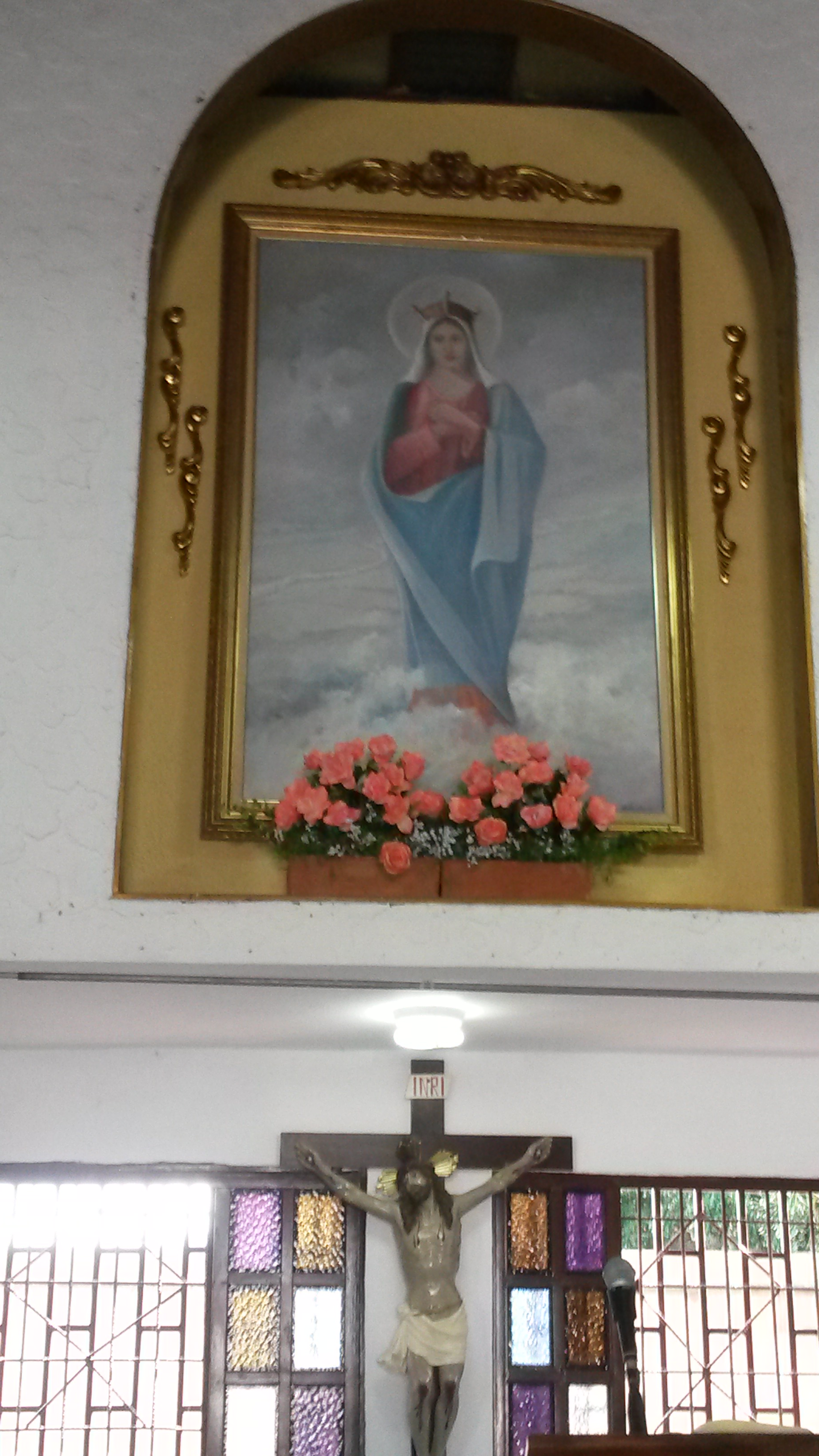 Pintura de la virgen emblemática de la iglesia